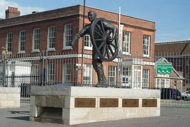 Commemorating the Field Gun Competition. For me; the Field Gun Competition was always a highlight of the Royal Tournament, in London. Always televised, and I was lucky enough to see it live on one occasion in the early 1960's. I was always amazed as to how quickly the teams could dismantle a gun, carry the parts over an obstacle course, re-assemble, and fire off a dummy charge.